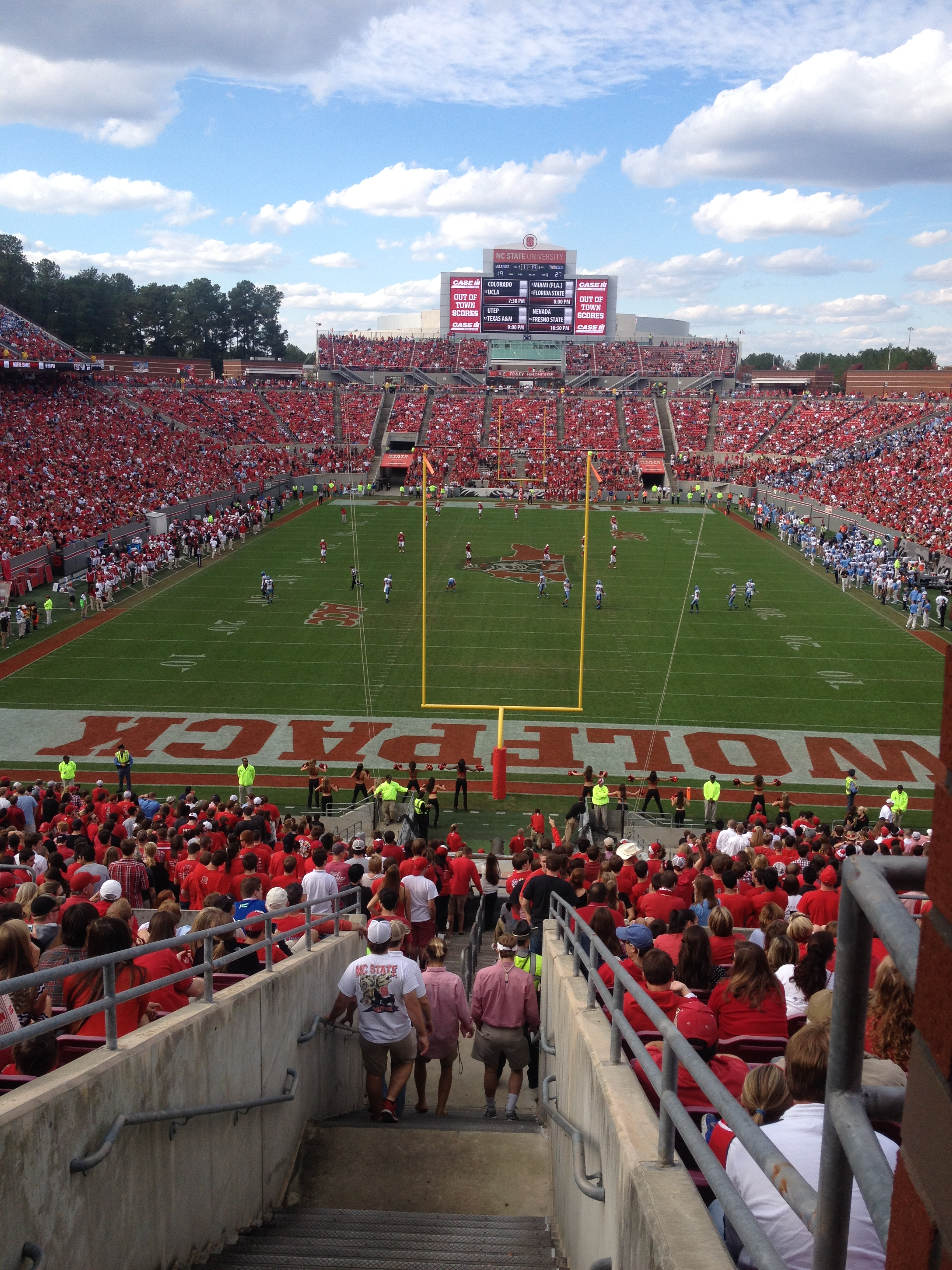 Carter-Finley Stadium during a NC State vs. UNC-Chapel Hill football game in November 2013